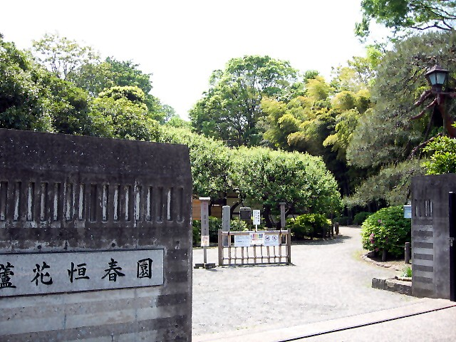 Roka kosyunen from Setagaya, Tokyo.